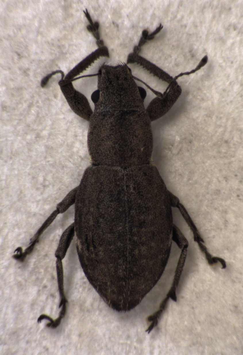 Asynonychus (cervinus) godmani (female, length about 8 mm, excluding rostrum). Tamaki Campus, on Corokia hedge at dusk (36°52′57″S 174°51′09″E / 36.88261°S 174.852593°E), Auckland, New Zealand, 6 Apr 2012, S.E. Thorpe.